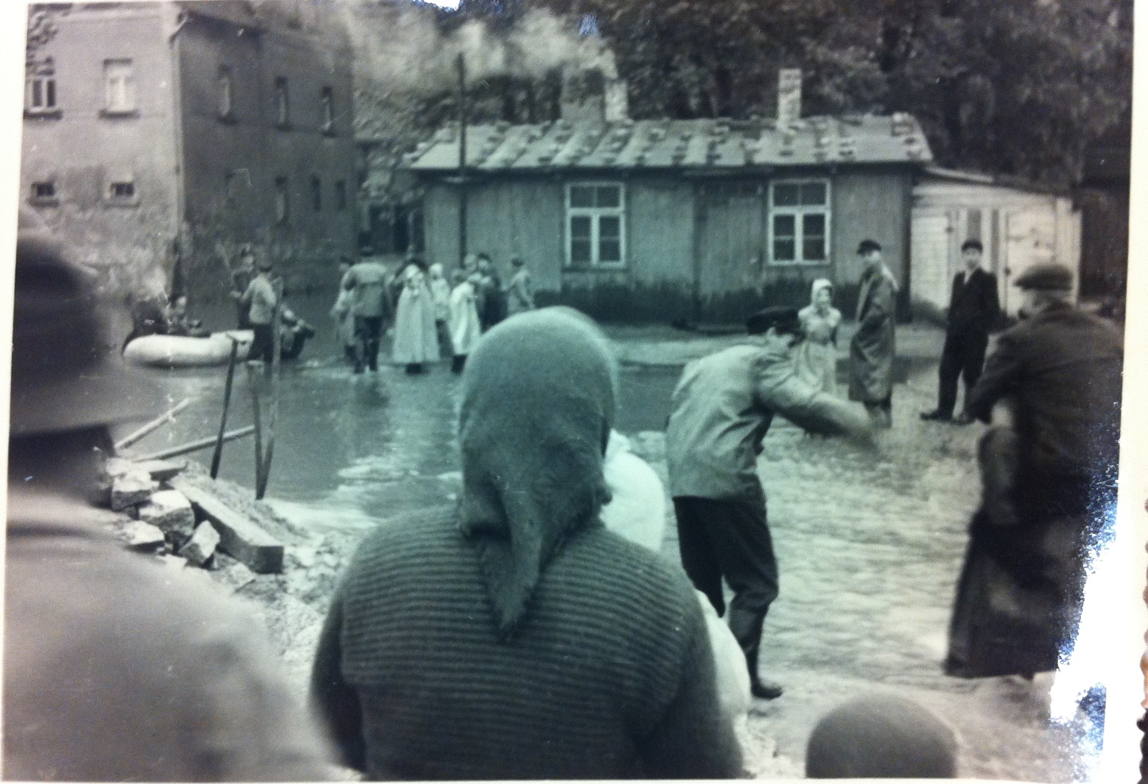 Floods in 1964 Benndorf